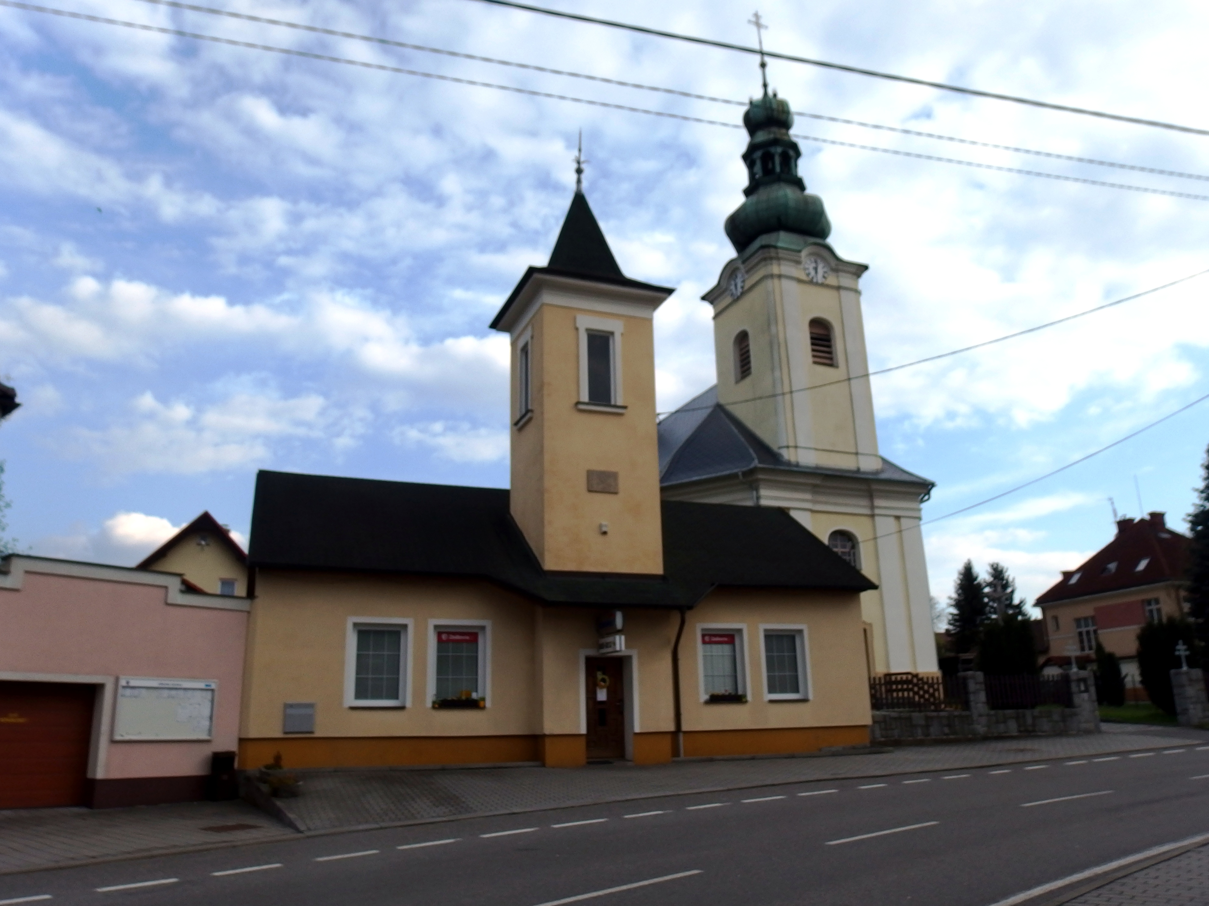 Petřvald, Nový Jičín District, Czech Republic.